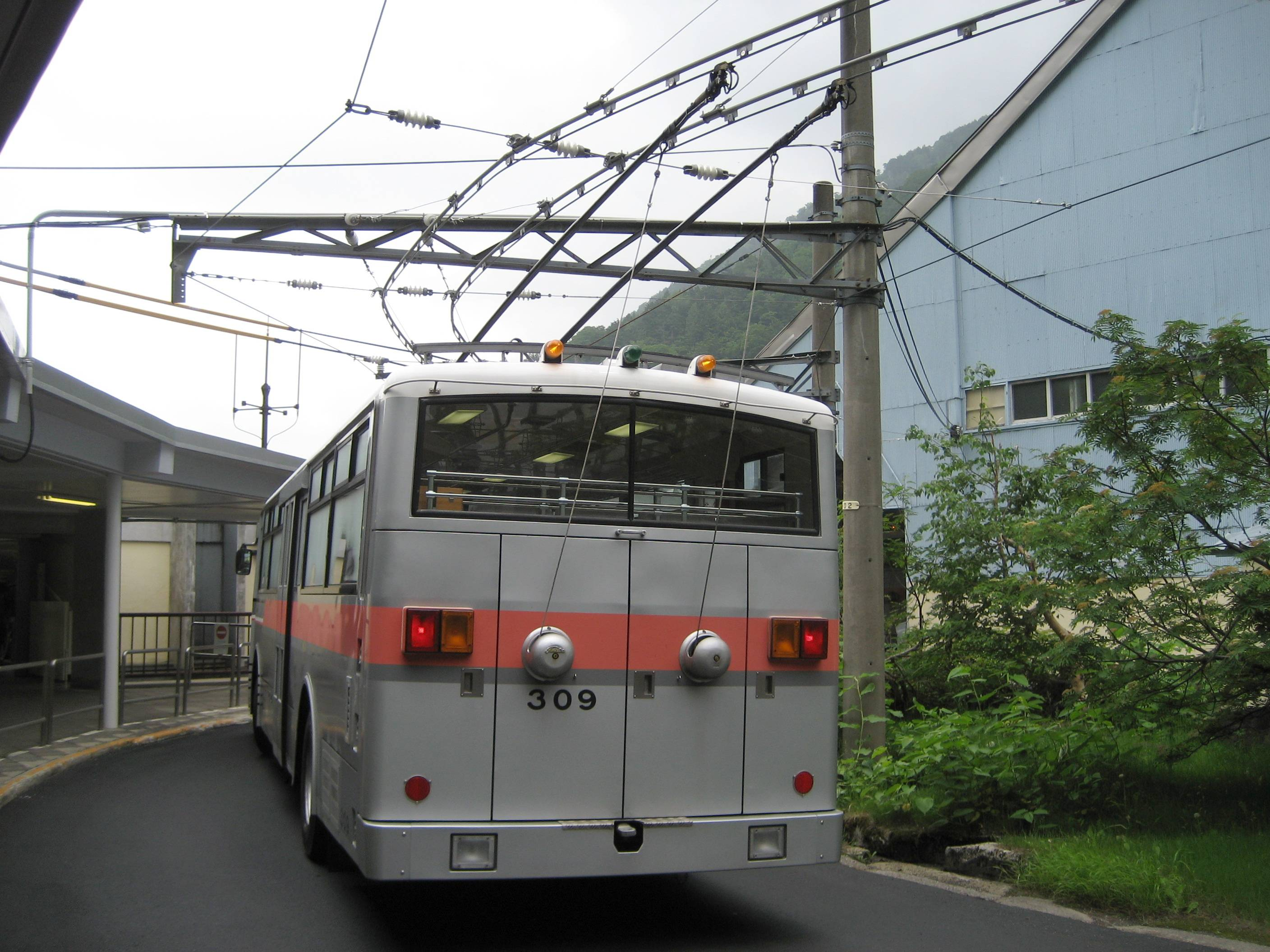 Back view of KEPCO 300 Trolleybus at Ogizawa station